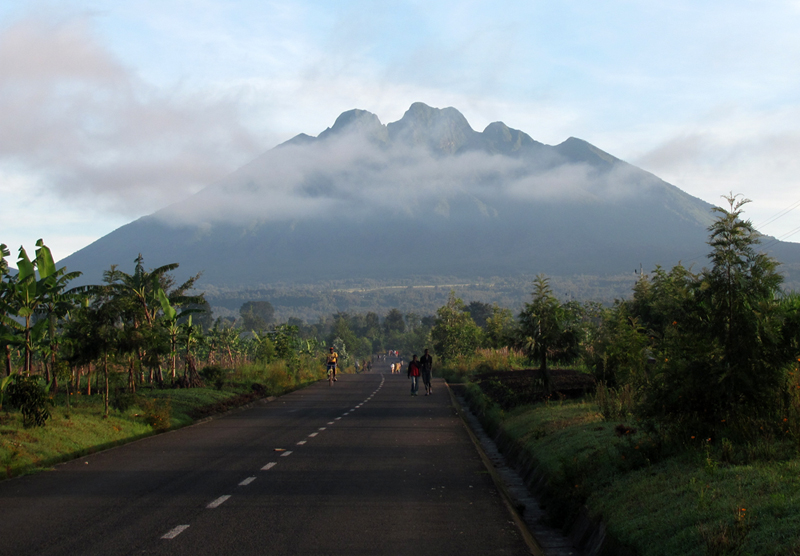 Sabyinyo volcano from the south side